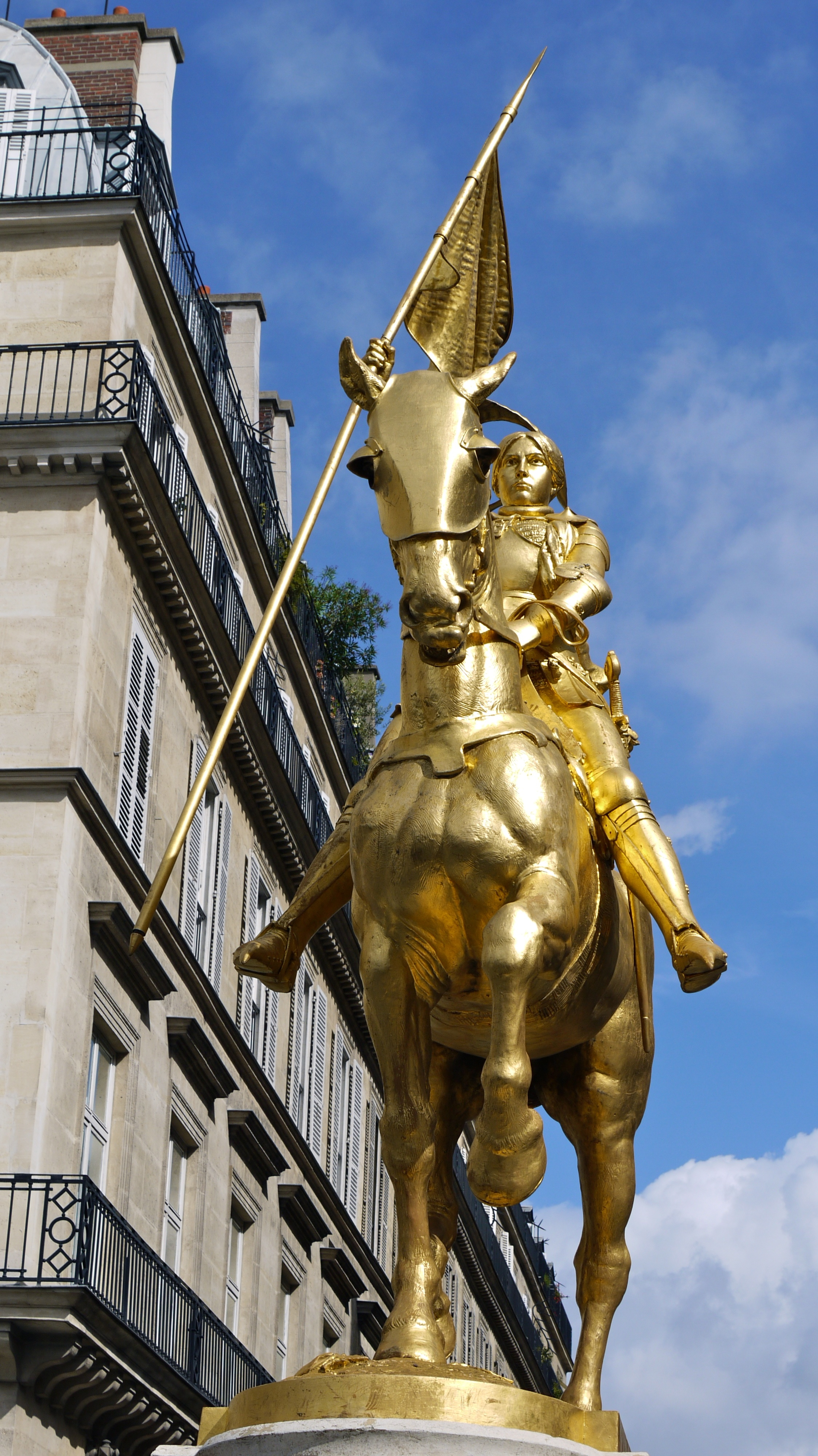 Statue of Jeanne d'Arc in Paris, Rue de Rivoli